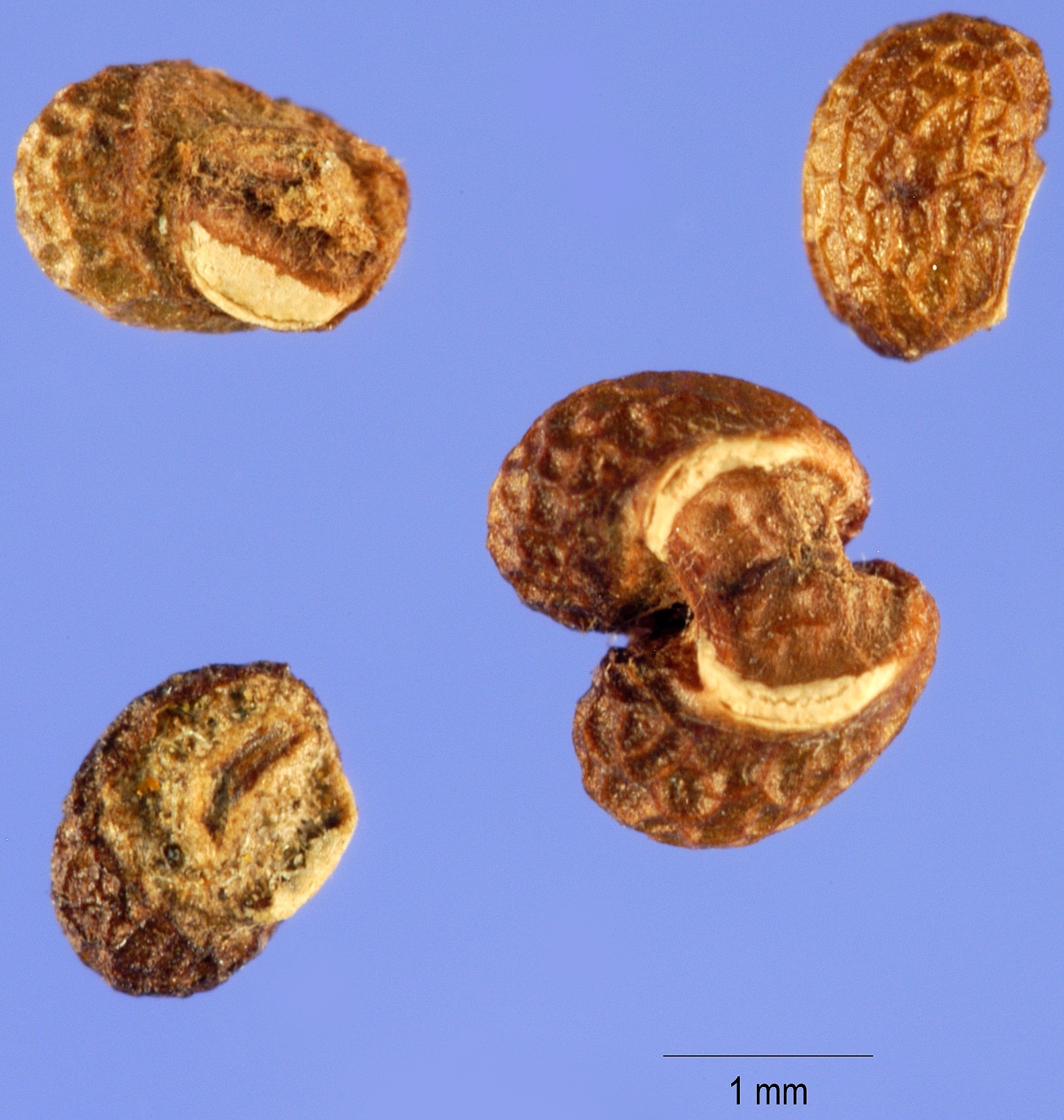 Common Bugle. Family Lamiaceae. Seeds. Collected in Washington, DC, USA.